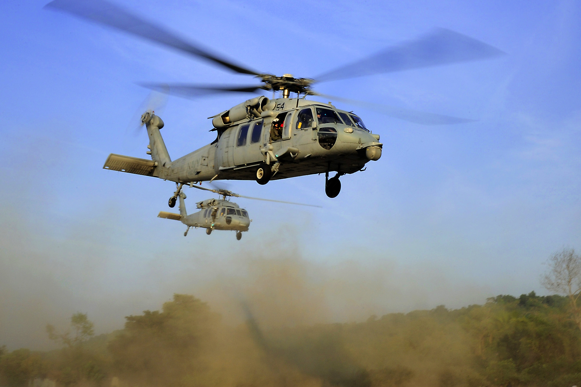 MH-60S Knight Hawk helicopters take-off after dropping Pacific Partnership 2011 members at the Zumalai medical civic action project site during the Timor-Leste phase of Pacific Partnership 2011 in Dili, Timor-Leste, June 17, 2011.